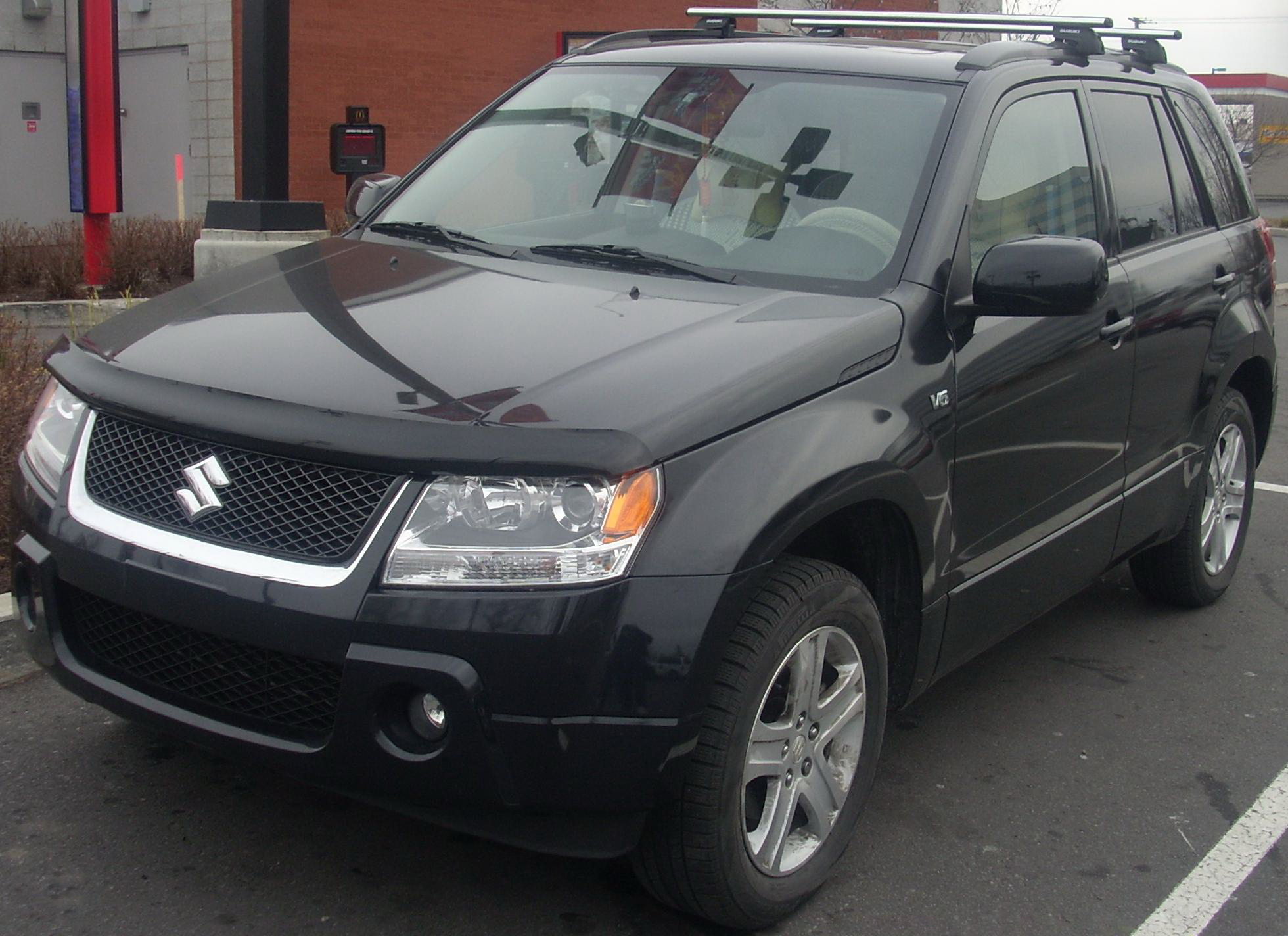 2006-2008 Suzuki Grand Vitara photographed in Montreal, Quebec, Canada.